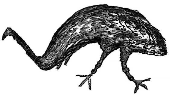 Bun-yip Toor-roo-dun shaped like an emu, fig. 244 as illustrated in "Aborigines in Victoria"